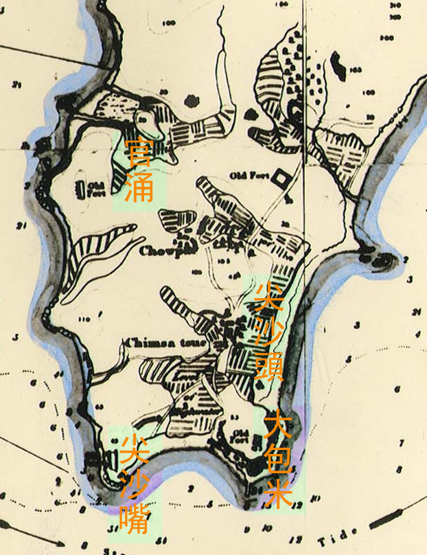 Highed Cantonese name in the Ordnance Map of Hong Kong 1845 (by Collinson)